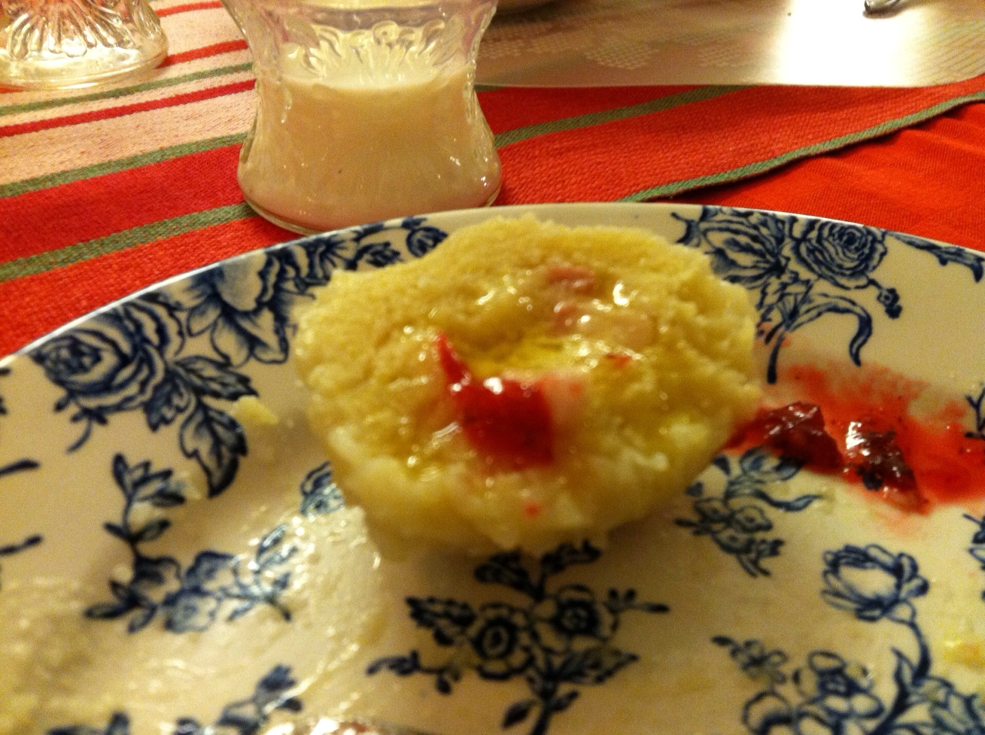 A picture of the inside of palt. This fläskpalt has pork pieces inside. (This is the same palt which is shown in File:Palt exterior.jpg )